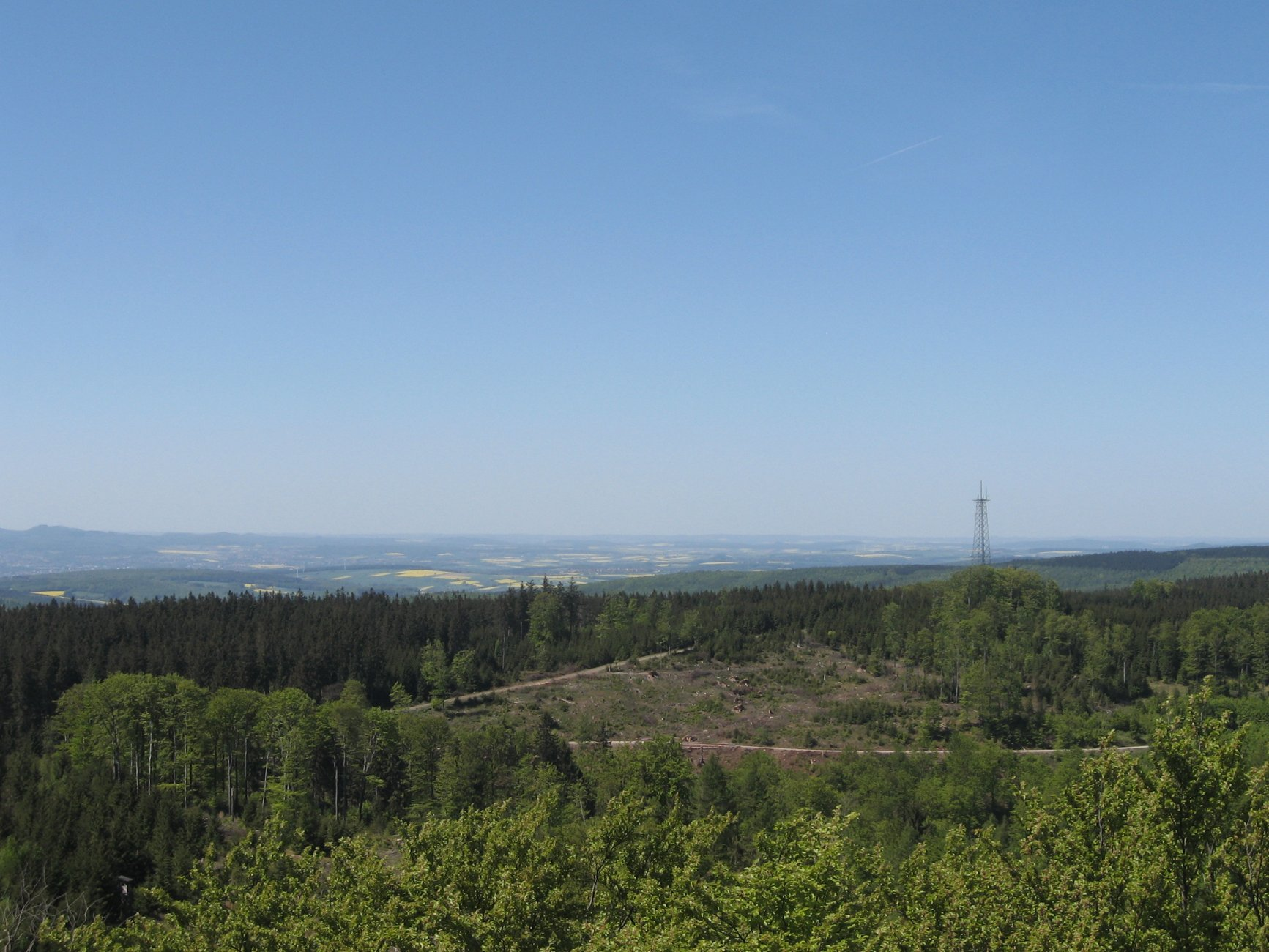 Germany / mountains "Kaufunger Wald" near Cassel